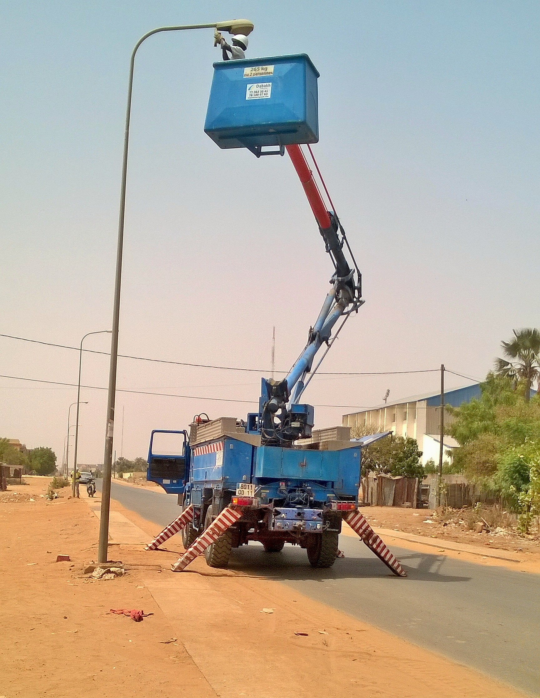 This truck allows convenience stores to climb up to repair the lights. Indeed, many of its public lights were no longer working, because of a lack of mismanagement of public assets, some poles were hit by motorists, others by people who remove the lines and then sell them, others because-that the lamps no longer light